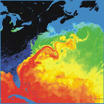 Golfstrom (Quelle: NASA) Public Domain